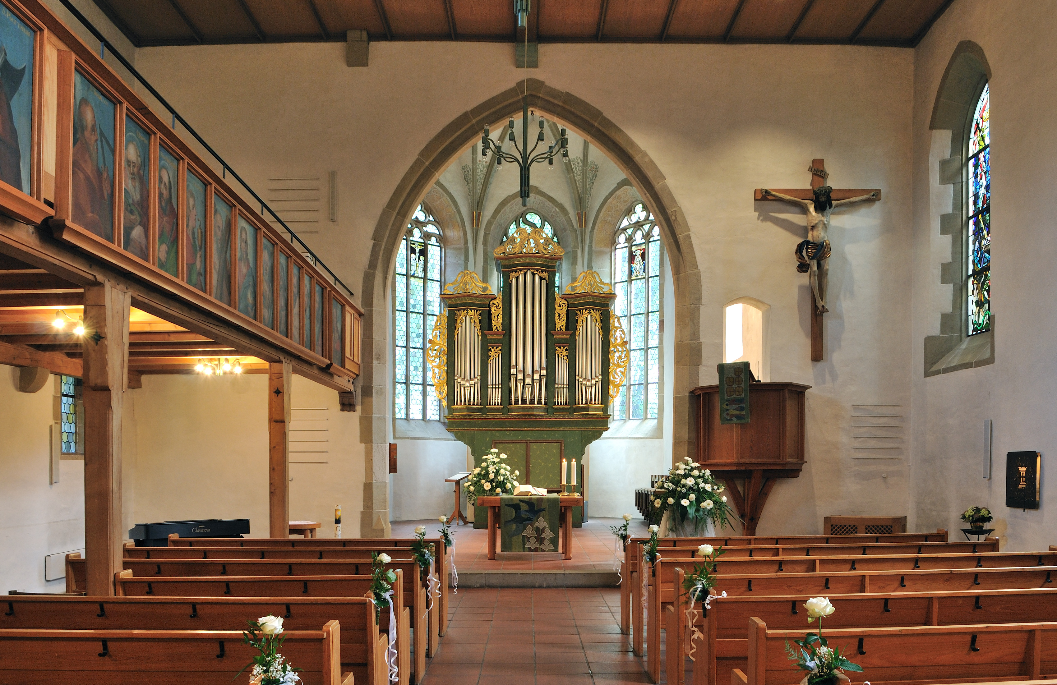 Konstanz church in Ditzingen, Baden-Württemberg, Germany.